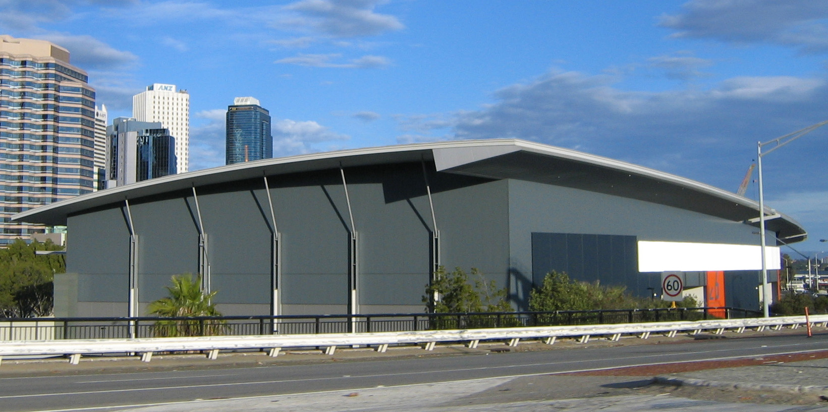 Perth Convention Exhibition Centre, Western Australia, from the Kwinana Freeway.